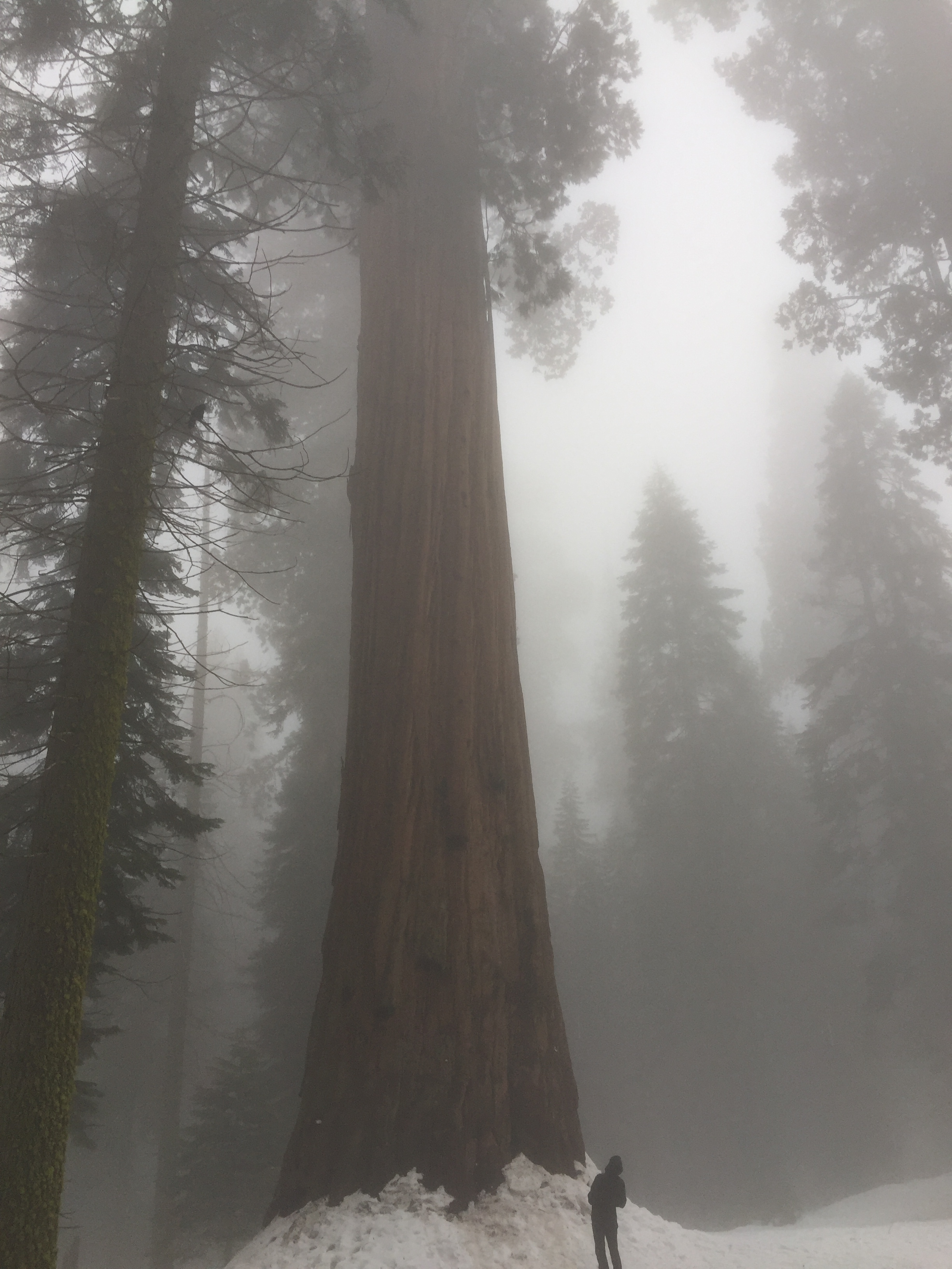 A comparison between a Giganteum Sequoiadendron and a human being in a Giant Forest, early spring of 2019. taken by Anne Brazell